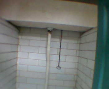 A typical Trough Cistern, most likely from the 1940s in a now demolished set of toilets in Bournemouth, Dorset. Here the chain hangs over the back. The chain is tougher to pull than earlier troughs. These were made into the 1970s and some can still be seen today.